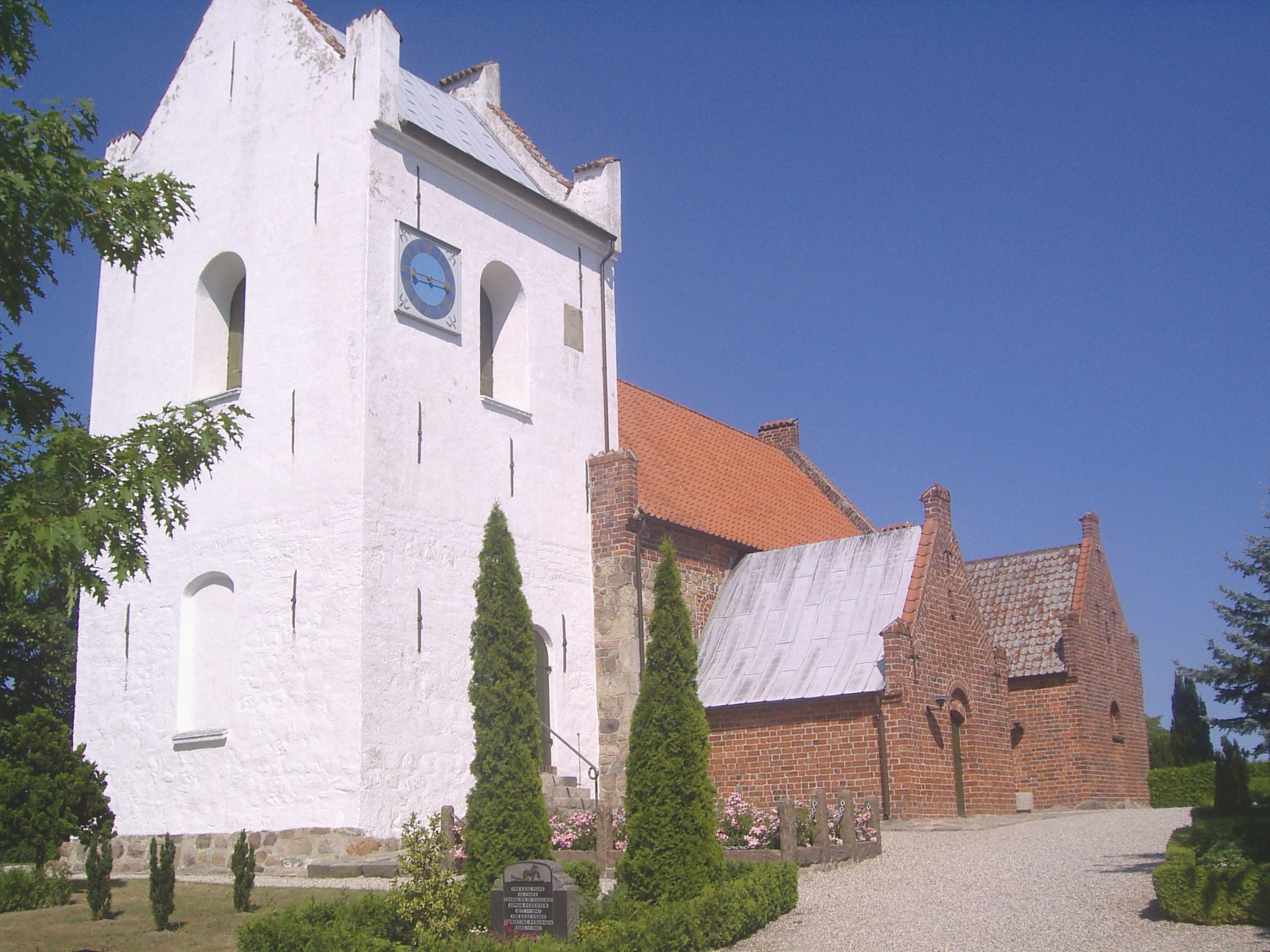 Church in Uggeløse, Community of Allerød, diocese of Helsingør, Denmark. Date: 2006.07.12 Author: Sir48